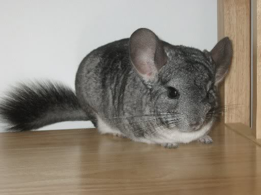 Photo of a standard gray chinchilla.